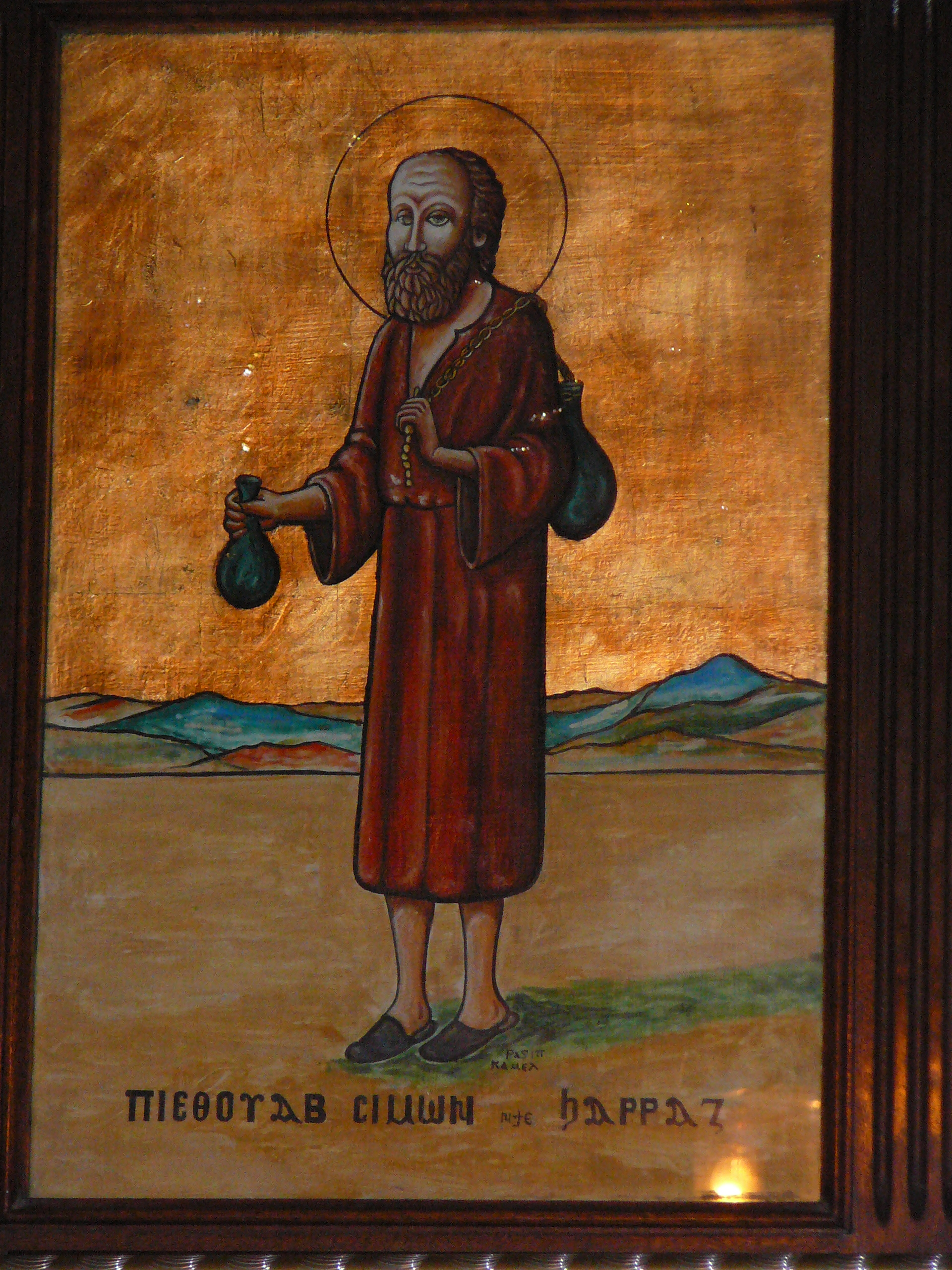 icon of Saint Simon the Tanner from the Church of the Holy Virgin (Babylon El-Darag)